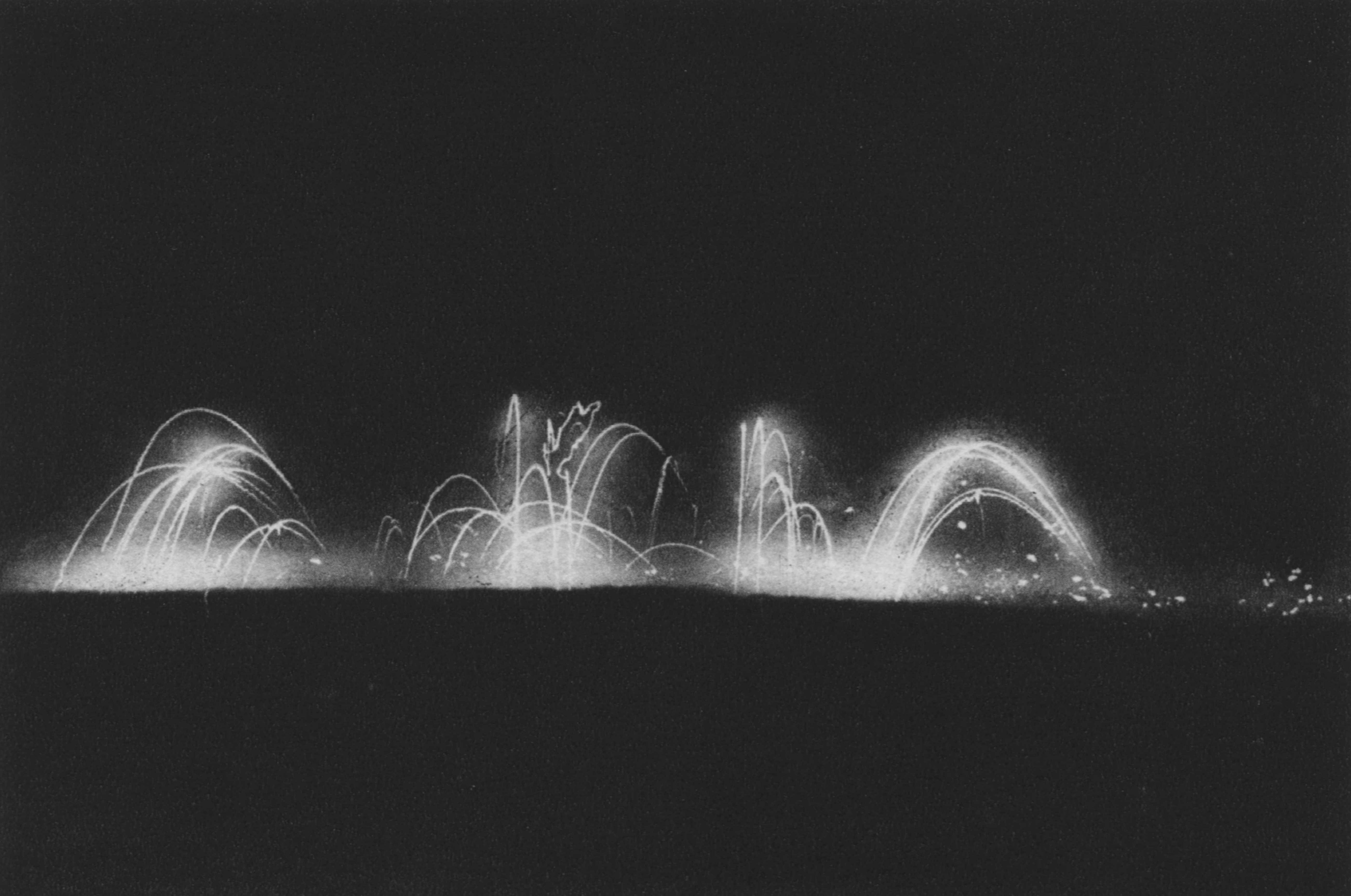 Night scene at Thiepval (August 7th, 1916). The war was not tied to the day. The need to keep an eye on approaches at night and exclude surprise attacks led to an extensive use of flares. So often entire front sections were immersed in bright light.